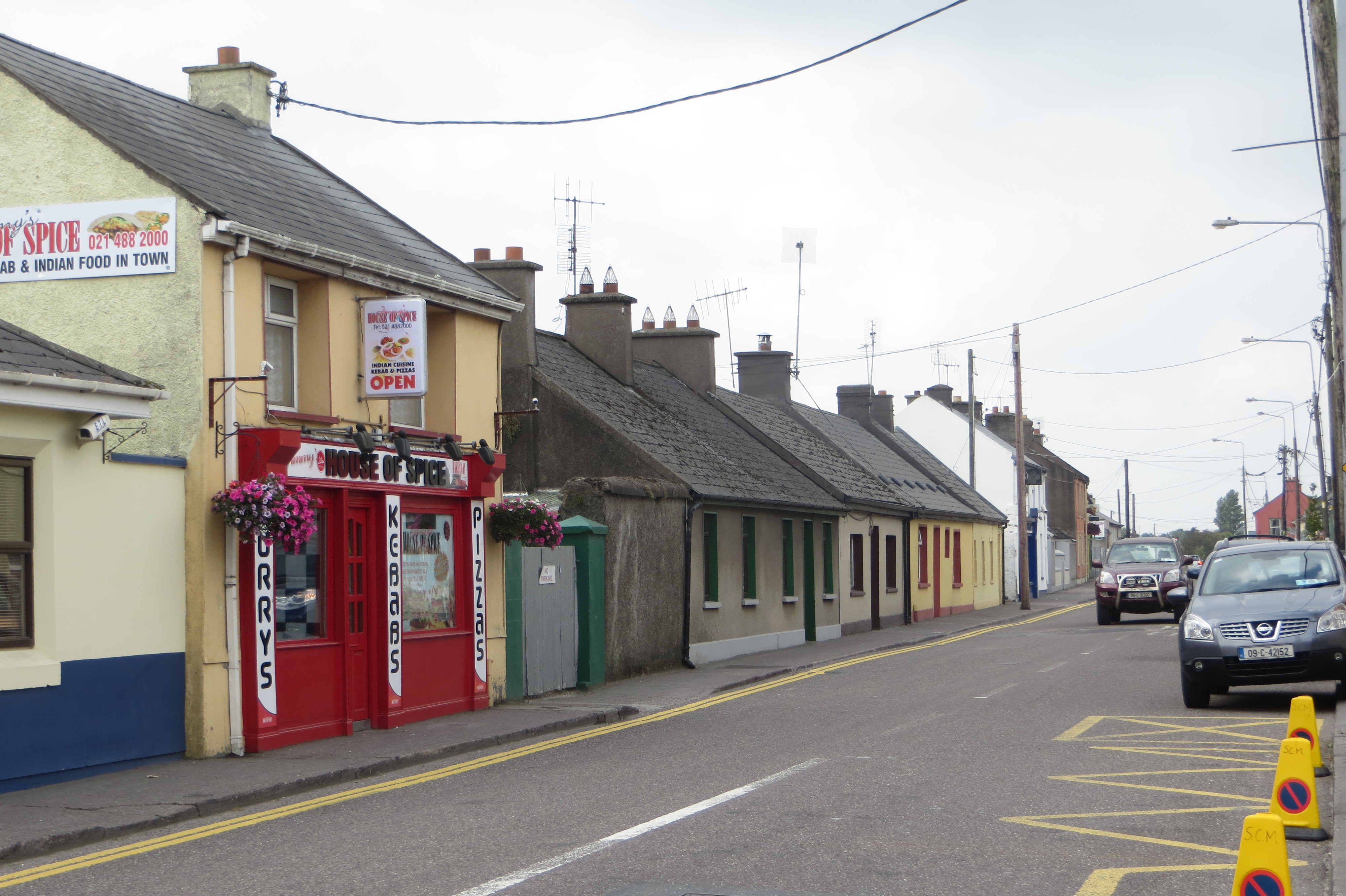 In Carrigtohill